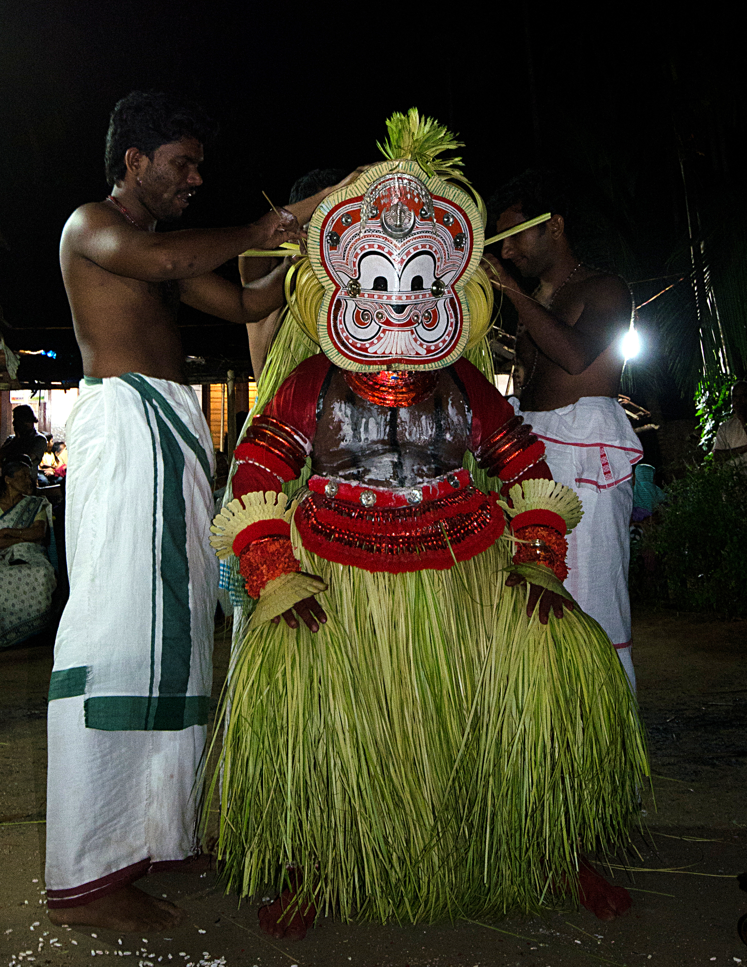 Pottan Theyyam at Peringeth Tharavadu,Cheruvathur,Kerala.